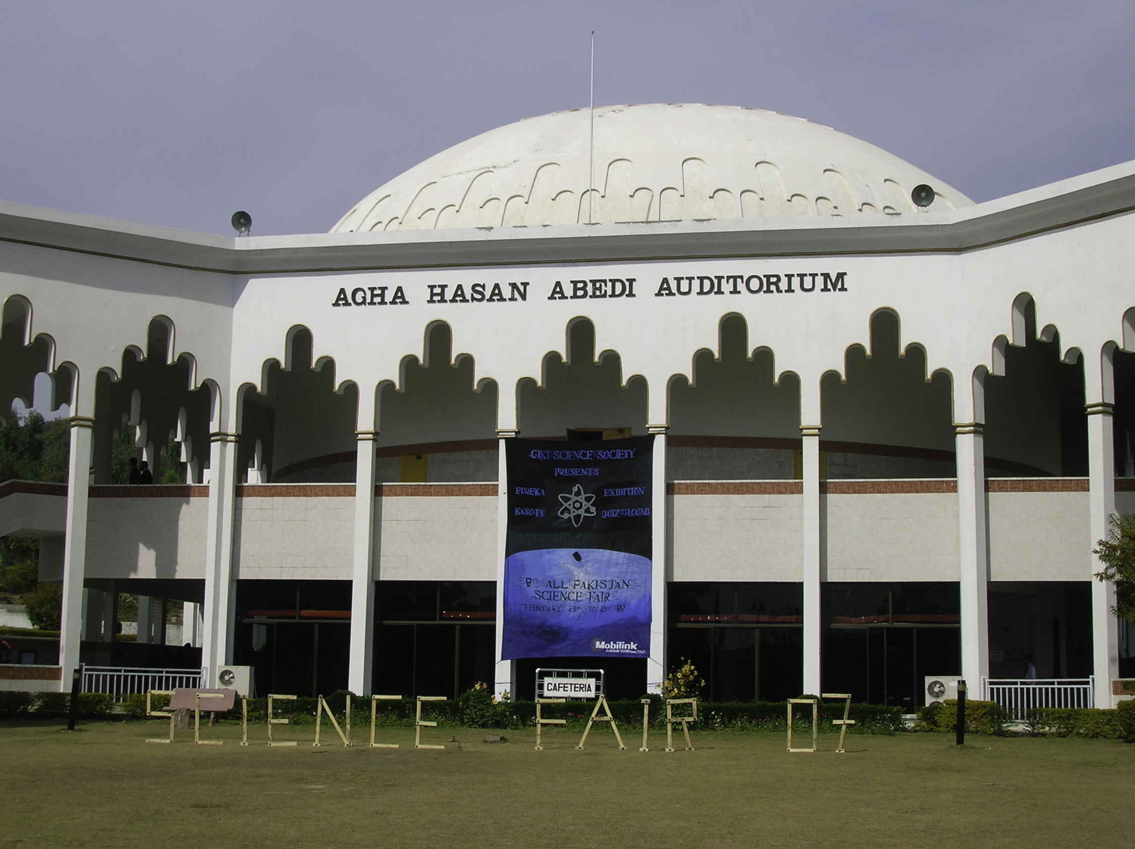 Close up view of Agha Hassan Abedi Auditorium at Ghulam Ishaq Khan Institute of Engineering Sciences and Technology on the event of 8th Science fair 2007